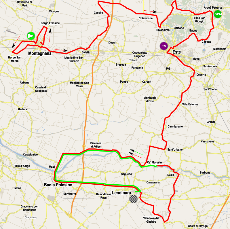 Map of the stage 3 of the Giro rosa 2016.